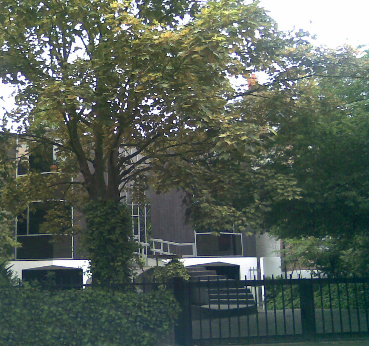 Colour photograph showing the exterior of 10 Blackheath Park, London, SE3, UK. The house was designed by architect Patrick Gwynne.